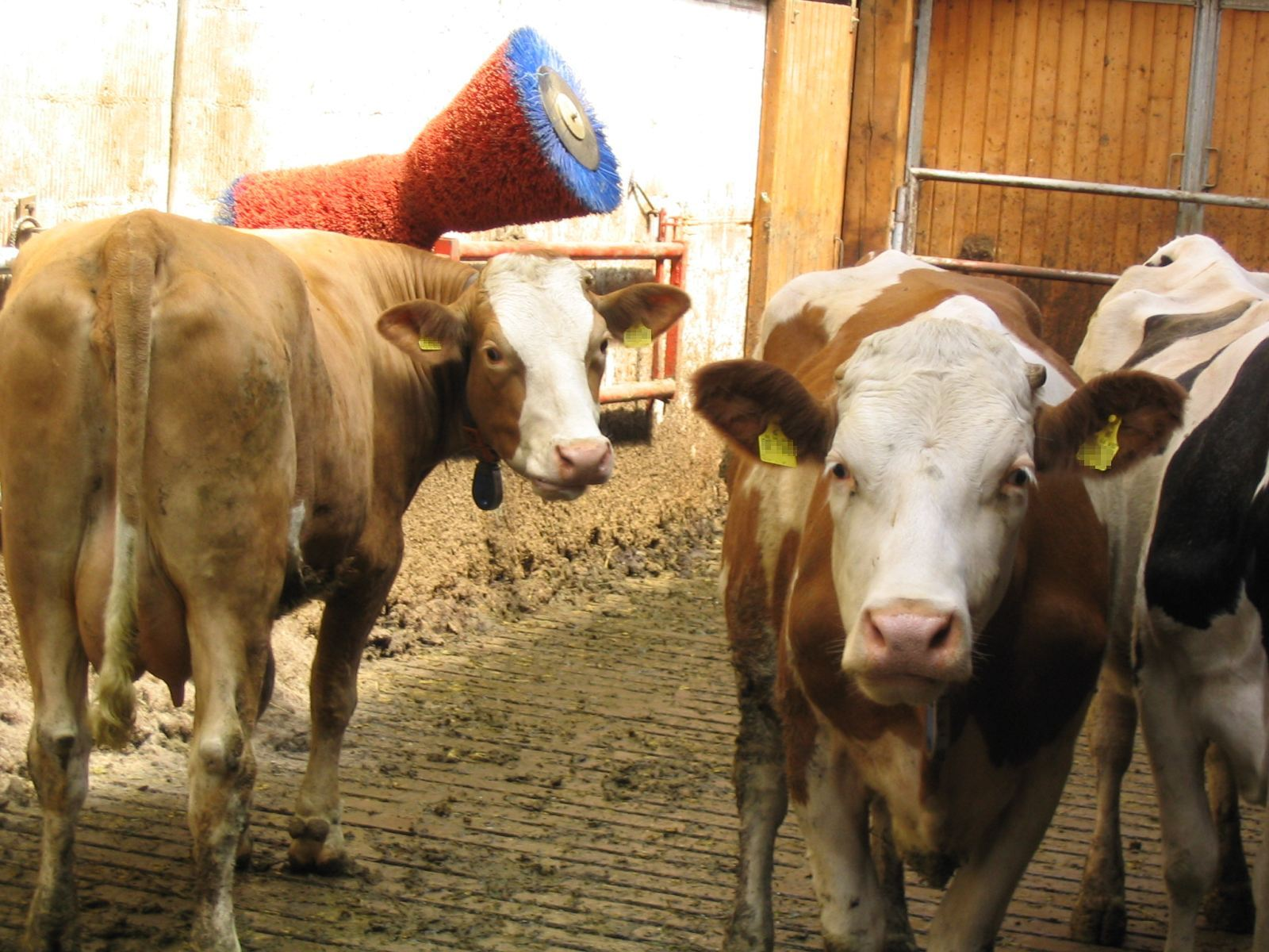 cattle with cropped horns